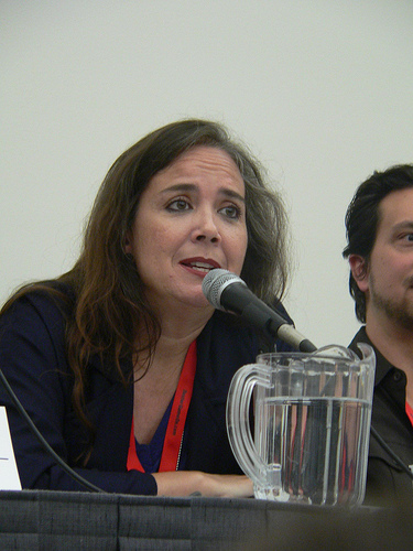 Lisa Coleman at Comic-Con in San Diego, 2010. Photo by Ryan Ozawa